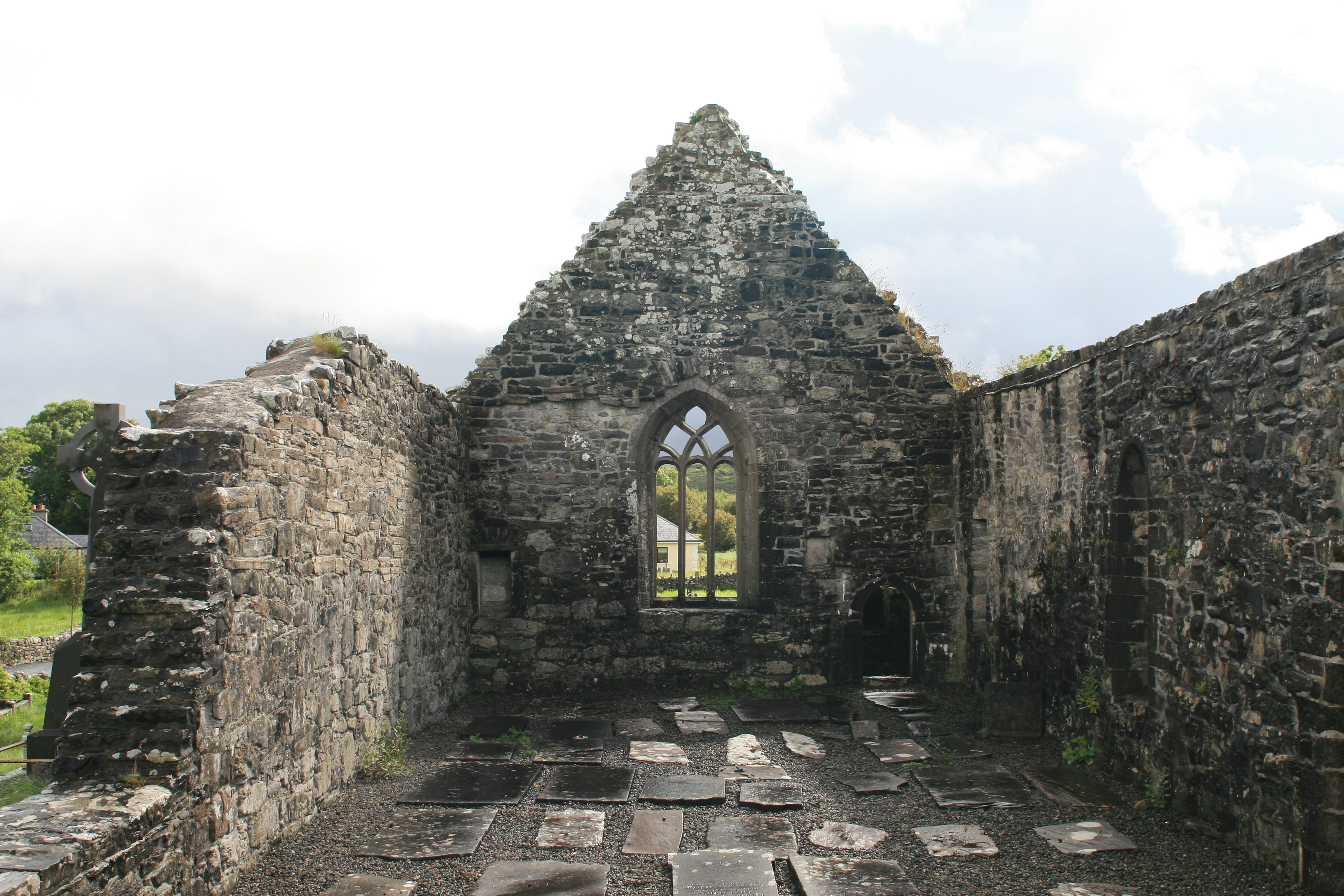 Aghagower, County Mayo, Ireland Old church of the monastic site at Aghagower